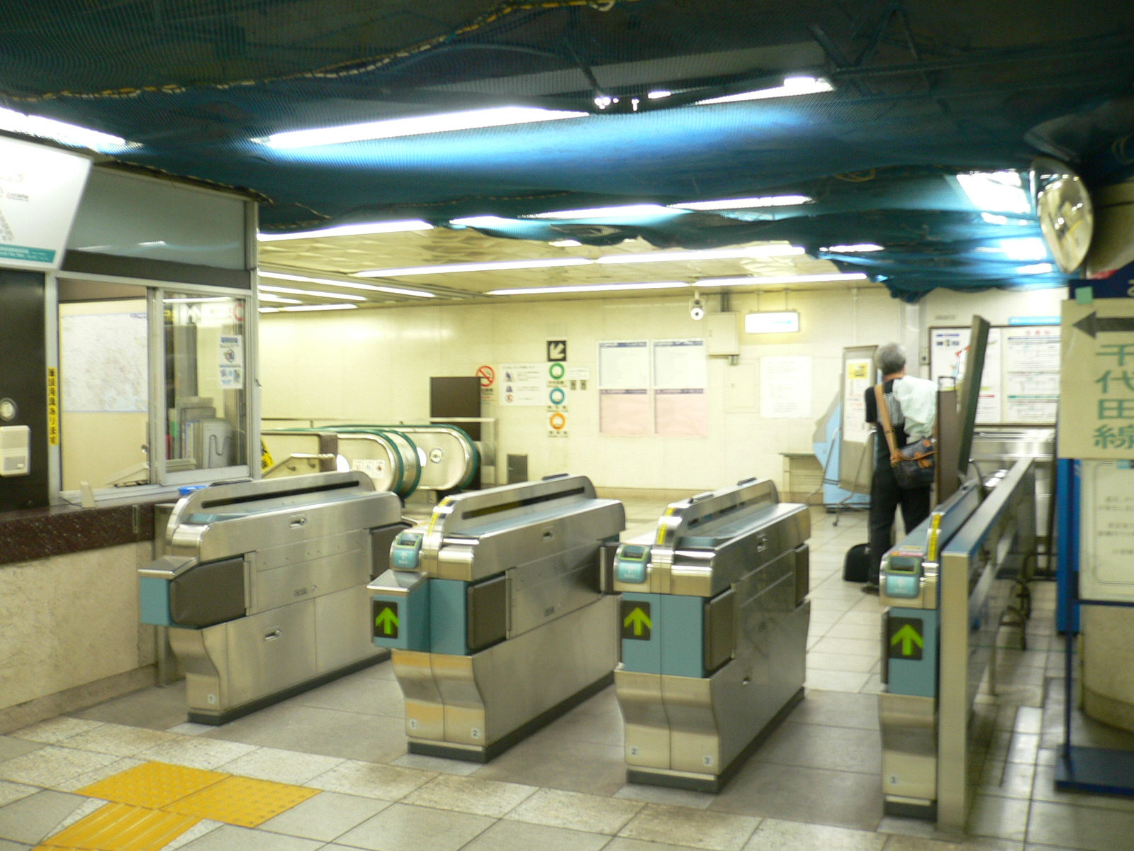 Kokkaigijidomae Station(国会議事堂前駅) in Chiyoda W, Tokyo M.